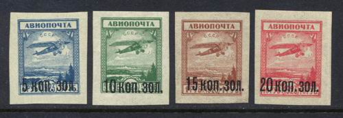 Stamp of USSR